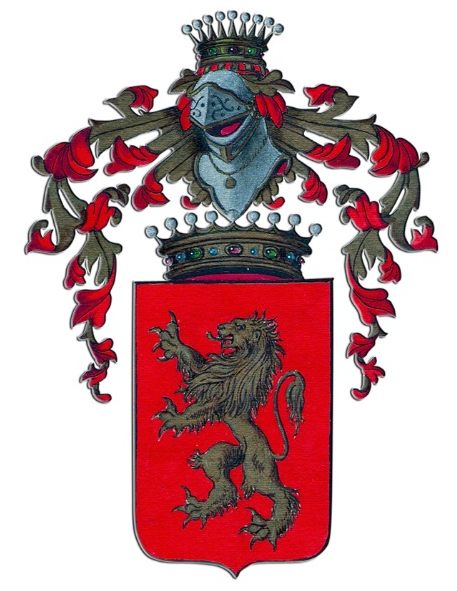 The coat of arms for Marone Cinzano Family